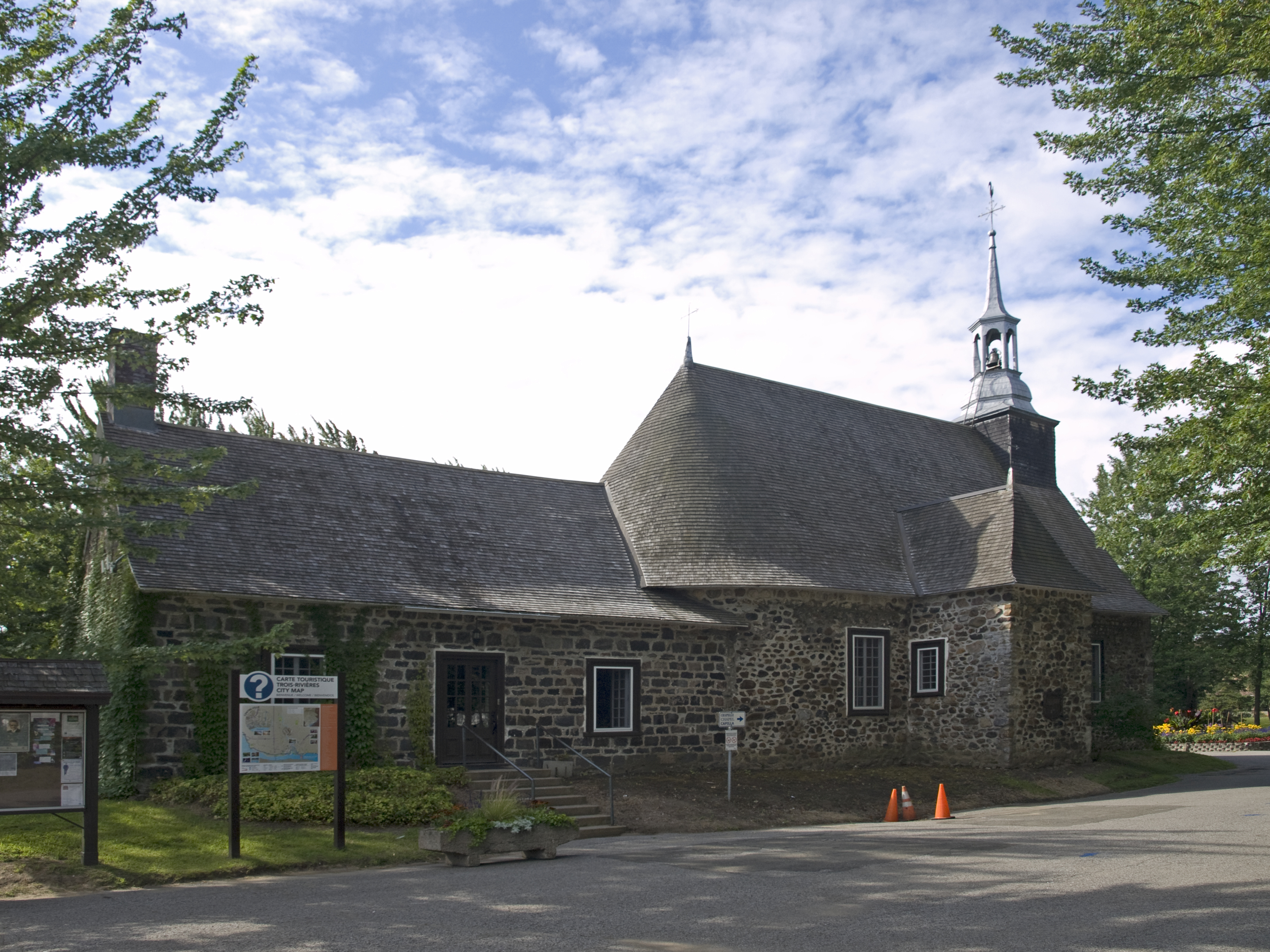 Chapel, Notre-Dame-du-Cap Shrine